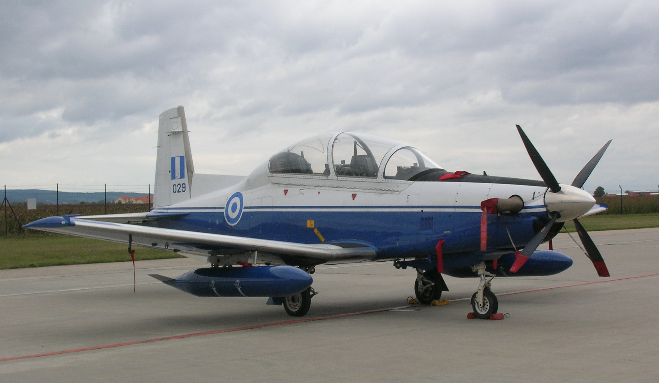 Greek Air Force Raytheon T-6A Texan II. Photo taken during CIAF in Brno.